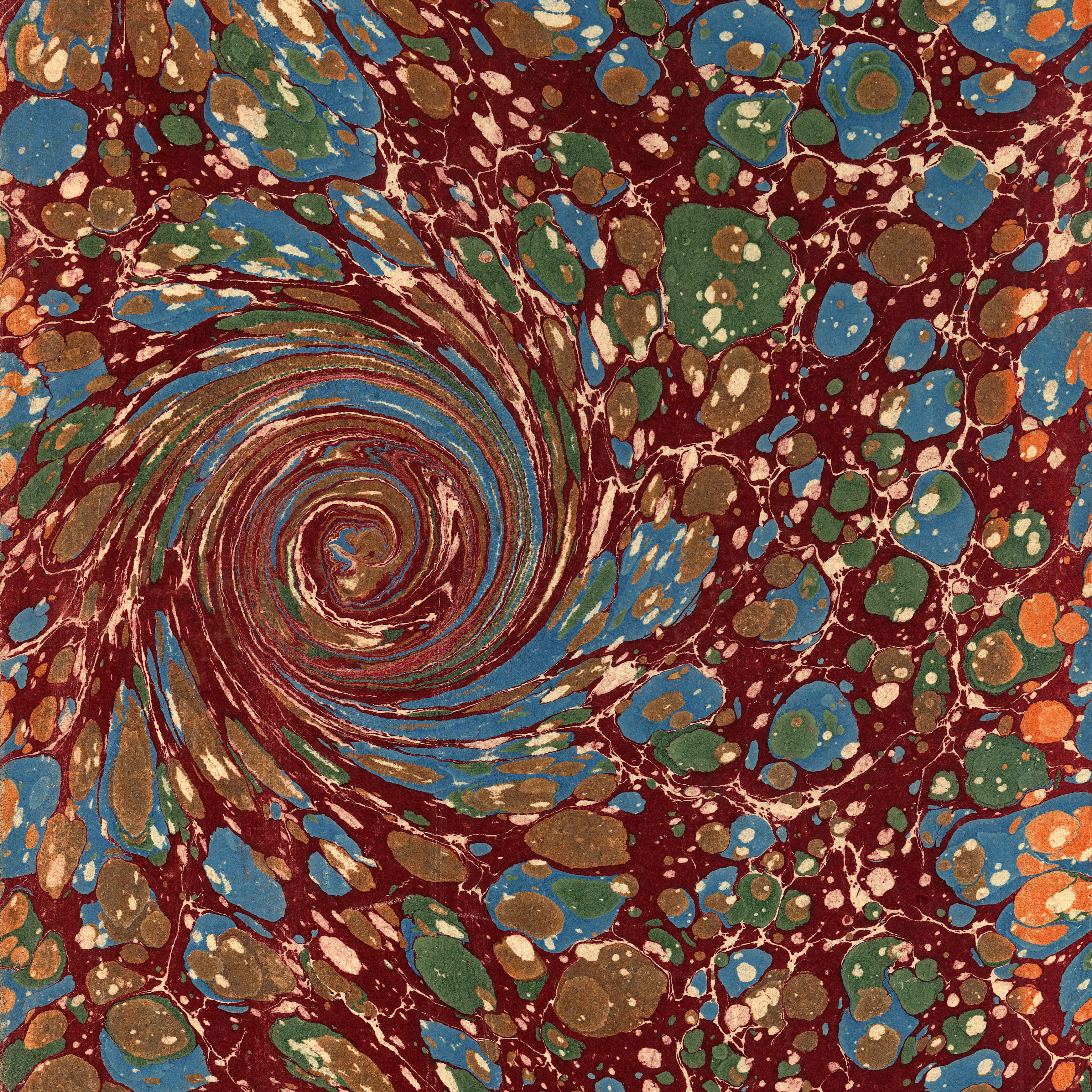 Detail of handcrafted paper marbling from endpapers of a book manually bound in France around 1880 (Giacomo Leopardi, Œuvres, vol. 2).